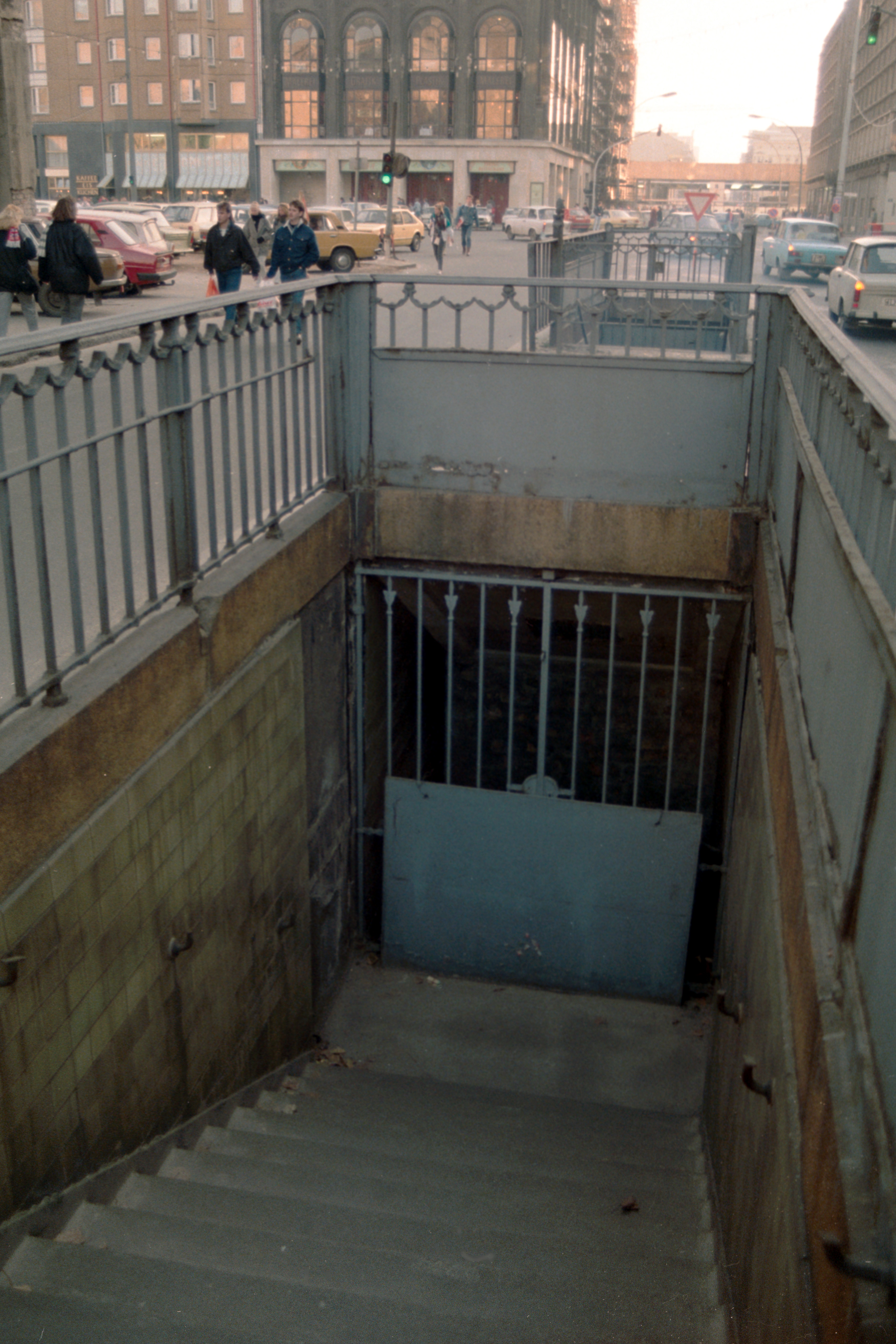 Ghost underground station Stadtmitte Berlin